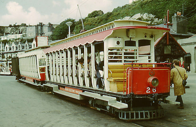 Manx Electric Railway, Derby Castle, Crossbench car 26 Crossbench car 26 with trailer soon to depart for Laxey and Ramsey. Suitable for summer duties, unlike the all-weather winter saloons.